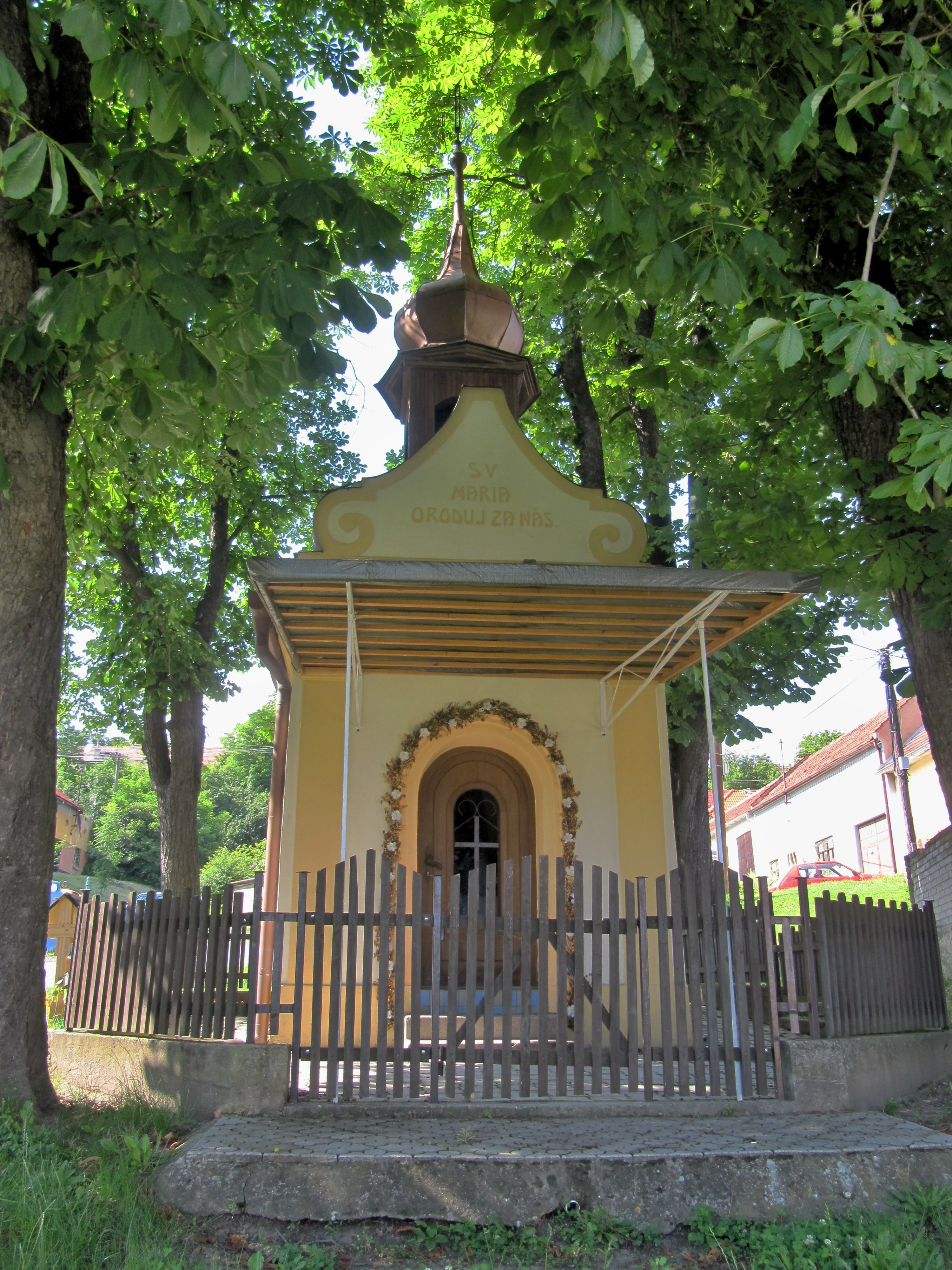 Mistřice, Uherské Hradiště District, Czechia, part Javorovec.